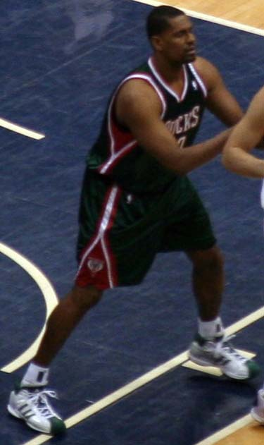 Kurt Thomas of the Milwaukee Bucks This file has been extracted from another file: Atlanta Hawks v Milwaukee Bucks 03 2010.jpg